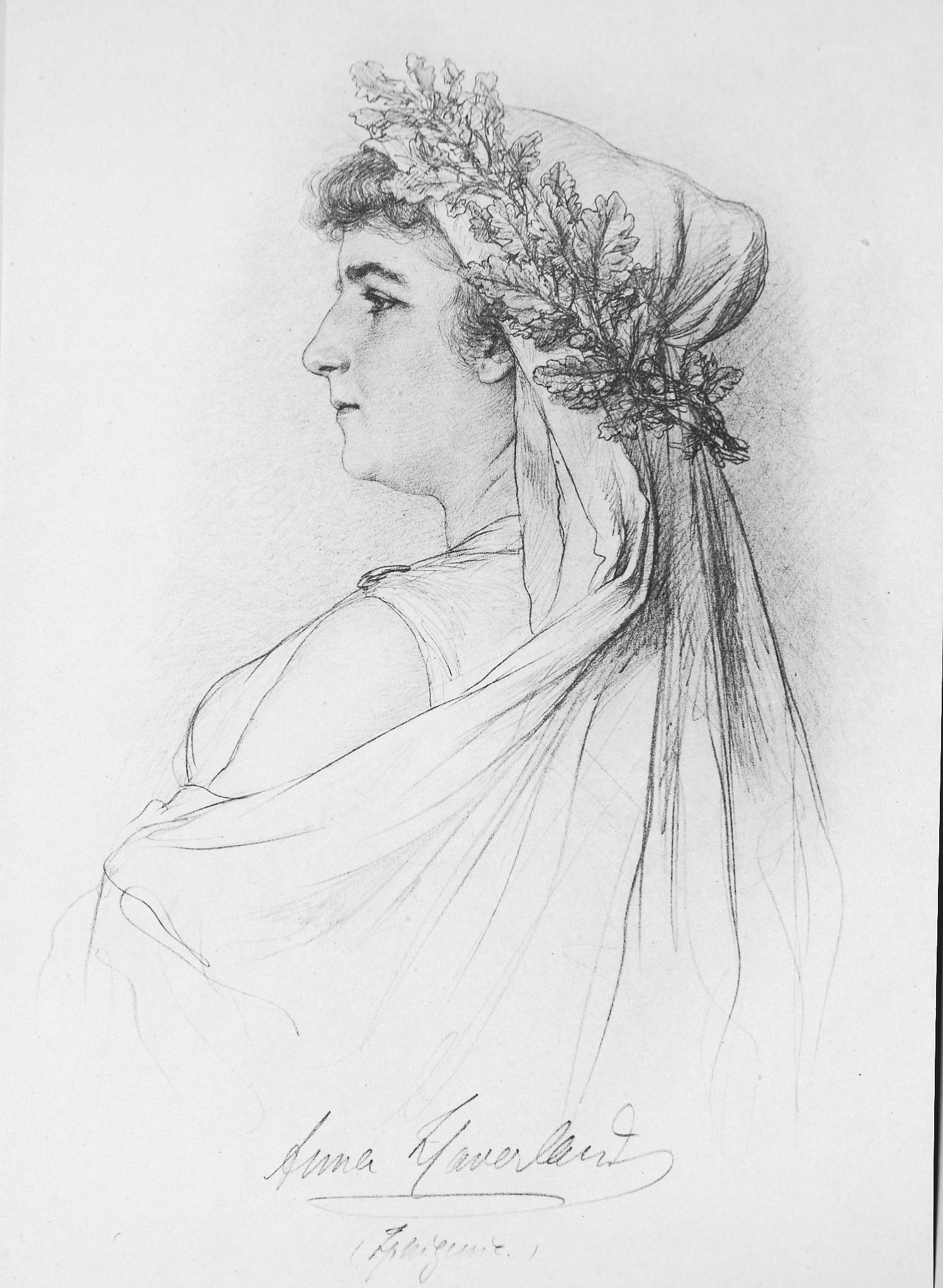 Actress Anna Haverland as Iphigenia, Meiningen, Germany.